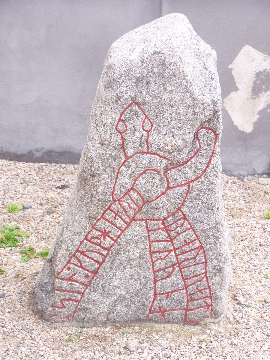 Runestone at Skön church, Sundsvall, Sweden